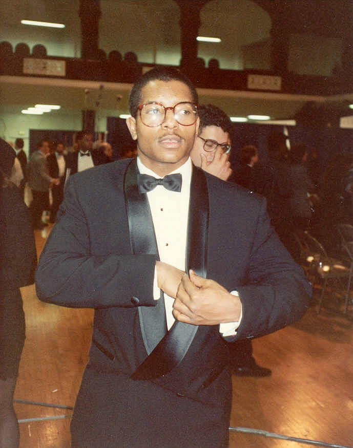 Young M. C (Marvin Young ) backstage during the Grammy Awards telecast 2/21/90